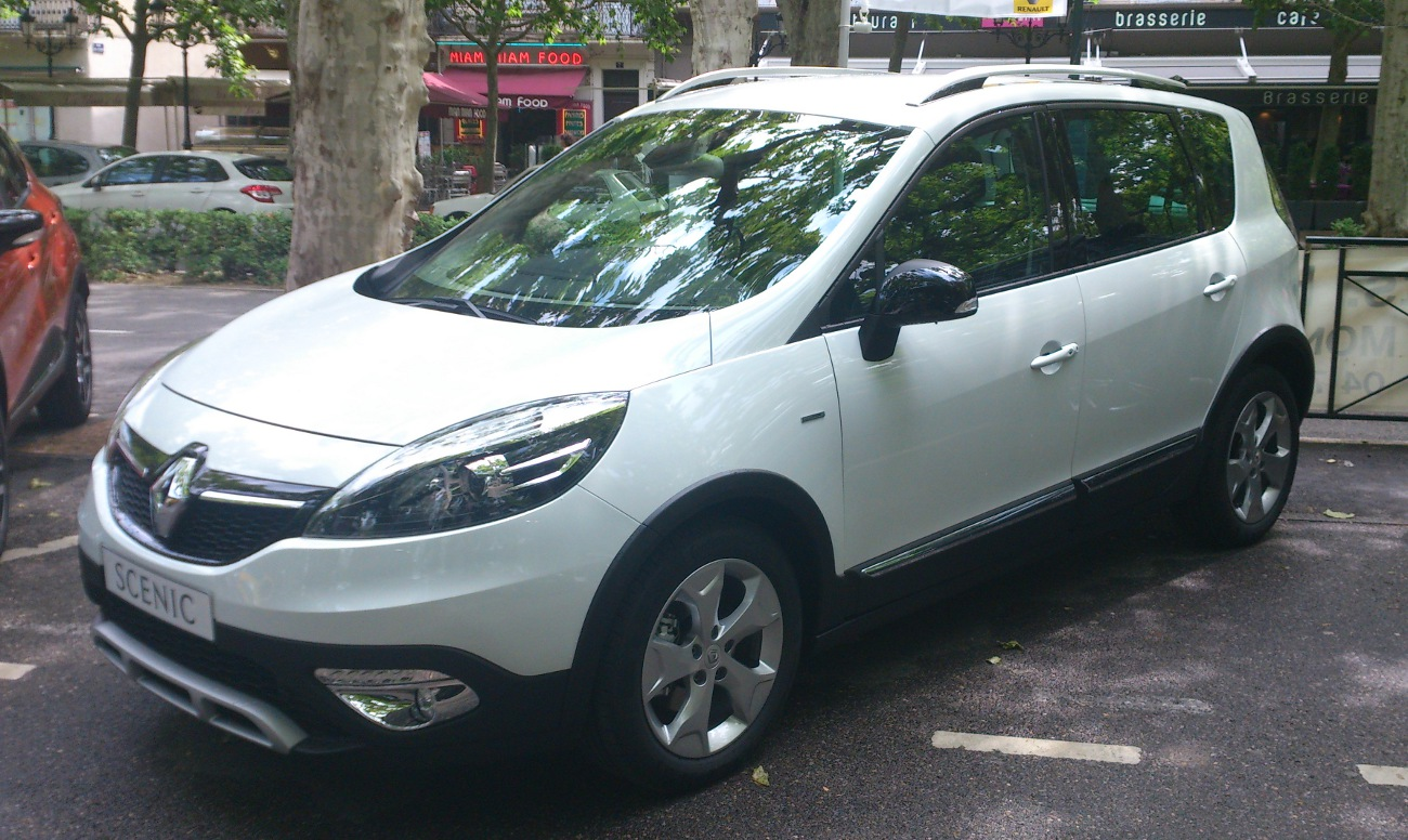 Renault Scénic X-Mod photographed in Montélimar, France.